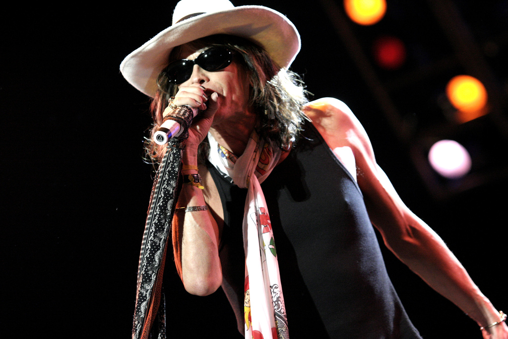 Aerosmith - Steven_Tyler